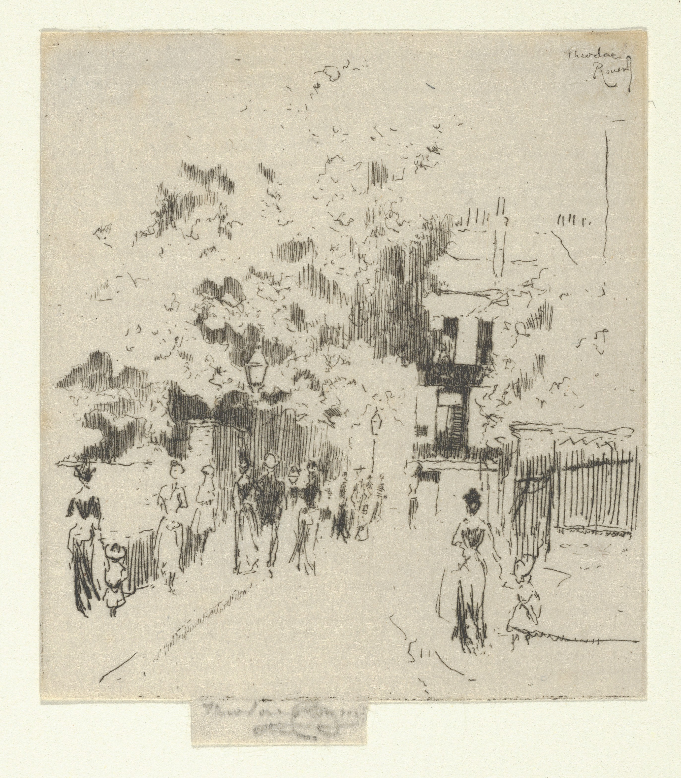 Print; Prints